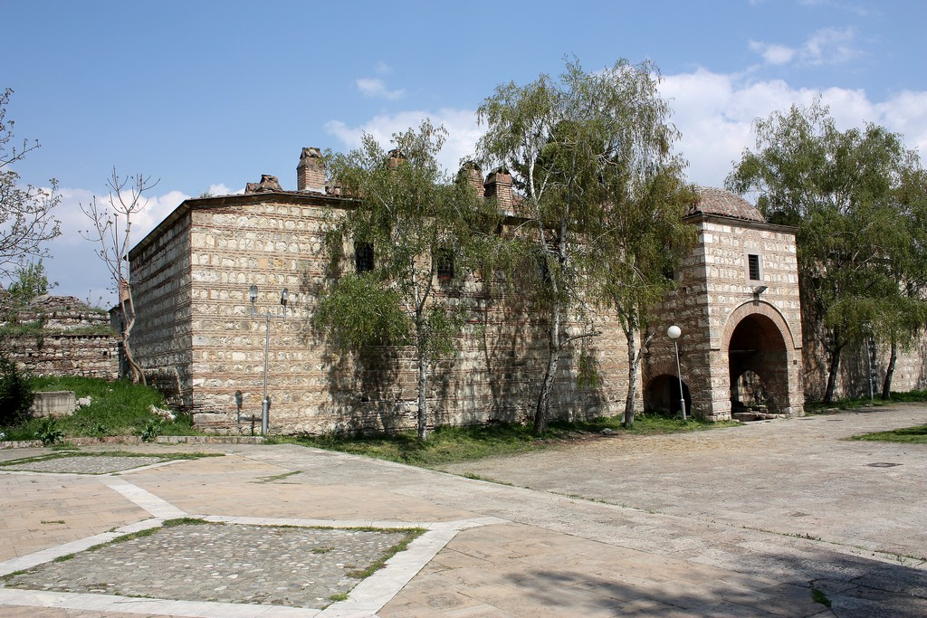 Museum of Macedonia_10 An artefact in the Ethnological section of the Museum of Macedonia, Skopje.